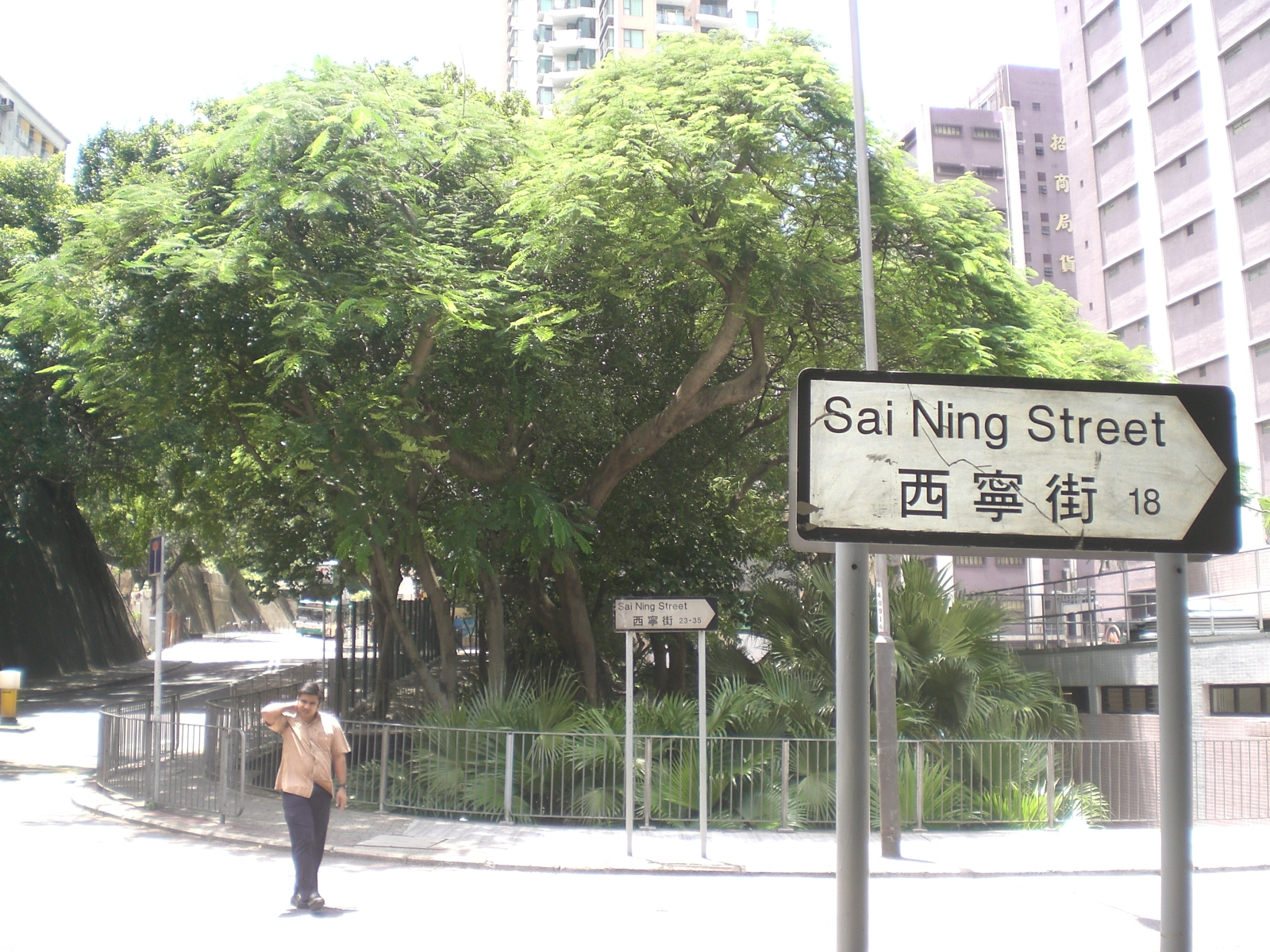 堅尼地城巴士總站 @ 堅尼地城西寧街, 近zh:域多利道